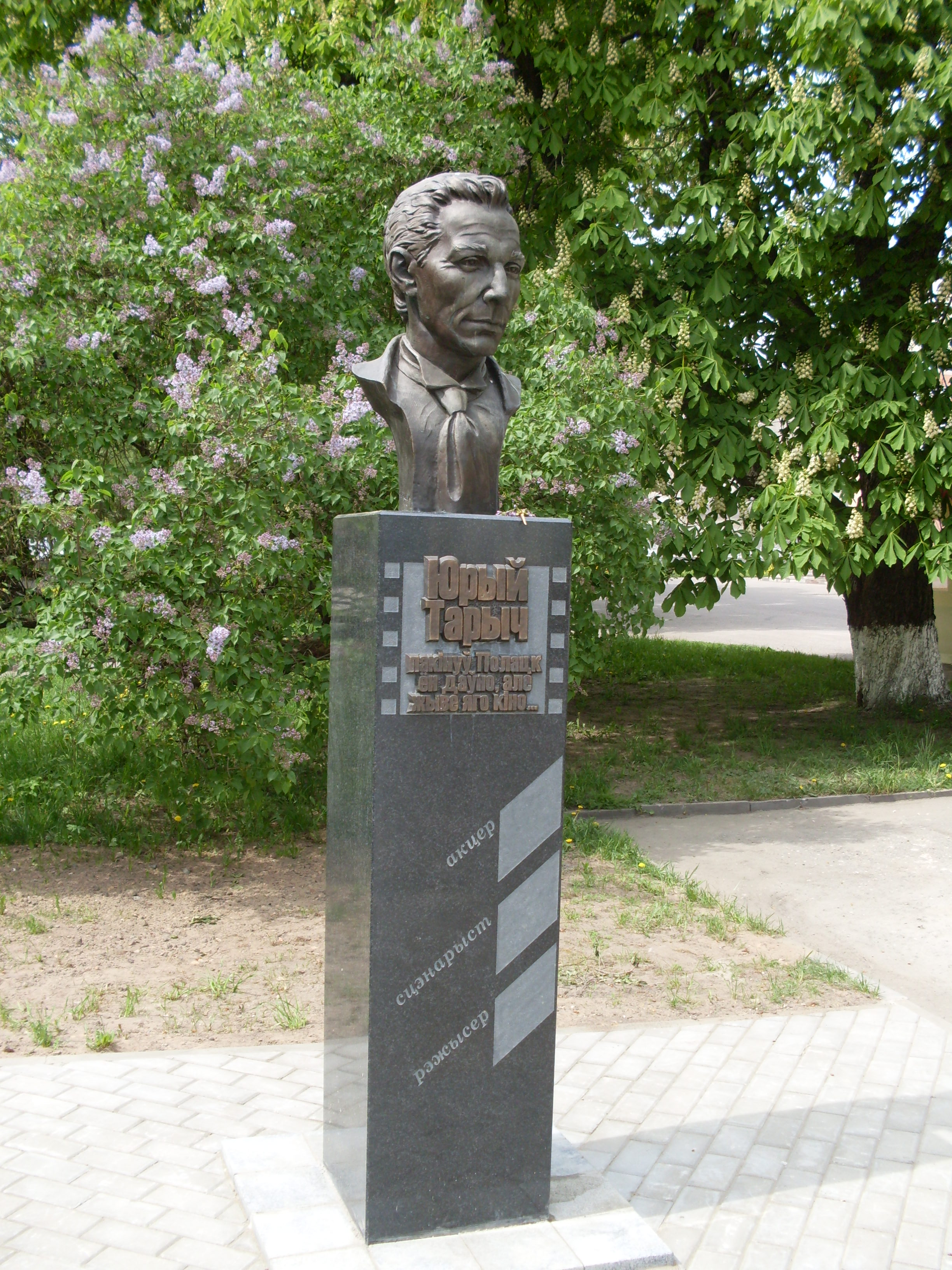 Bust to Yuri Tarich (2010). Sculptor L. Minkevich. Polotsk (Belarus)